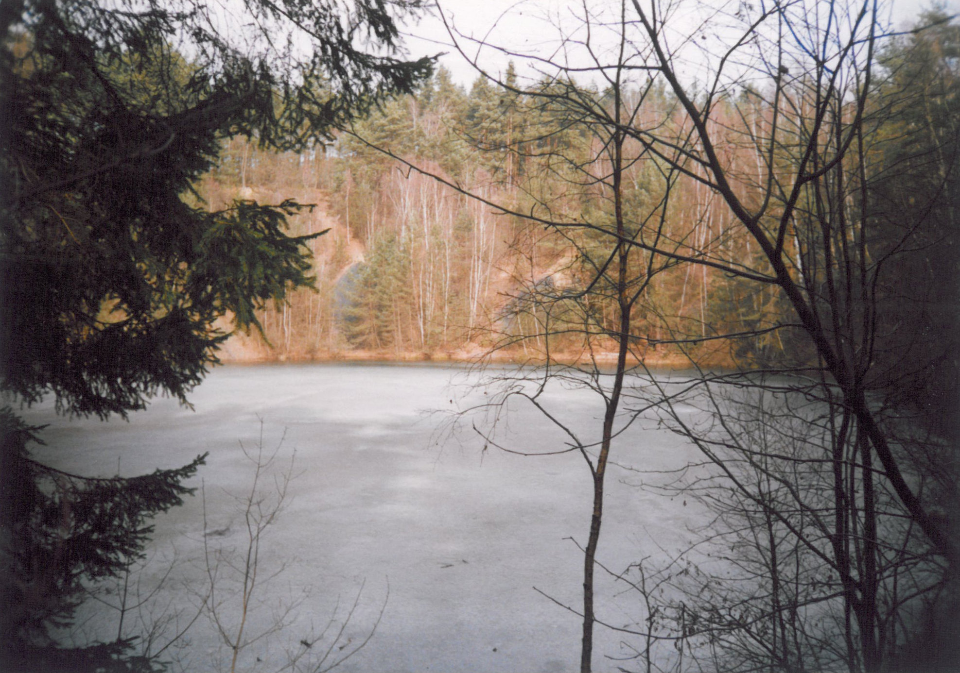 The "green lake" (former vitril-shale mine) by Berk by Bolní Bělá, District Plzeň-sever, Czech Republic